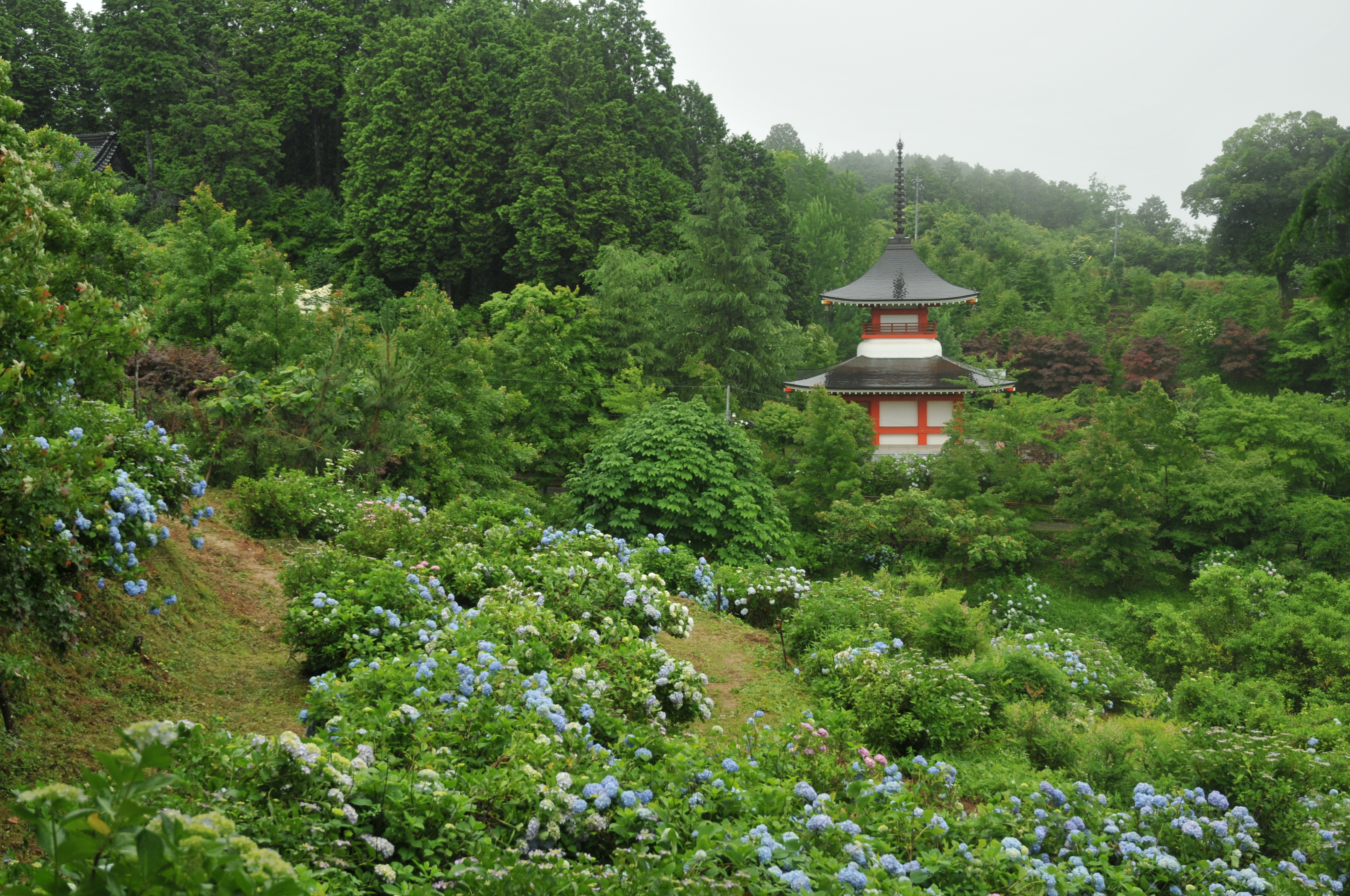 Hydrangea garden and Tahō-tō, Daishō-ji